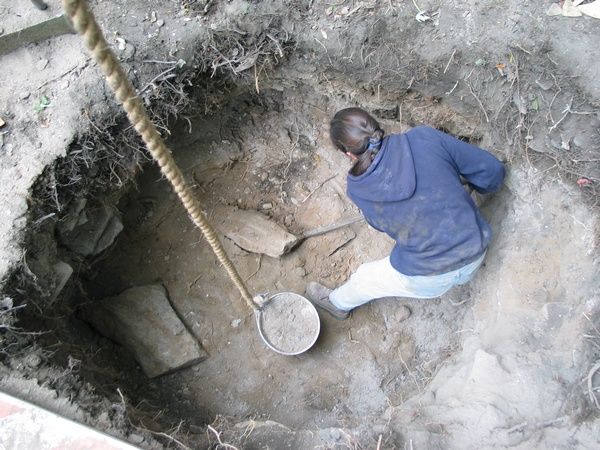 Removing rocks and sterile fill from inside a large stone-lined urban privy vault (antique bottles and other items discovered on this dig date from 1840s-1870s).